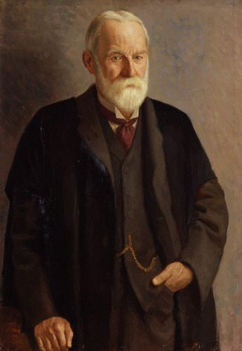 Portrait of Sir George Howard Darwin, F.R.S. (1845-1912), mathematician, astronomer and son of naturalist Charles Darwin. Courtesy of the National Portrait Gallery, London.